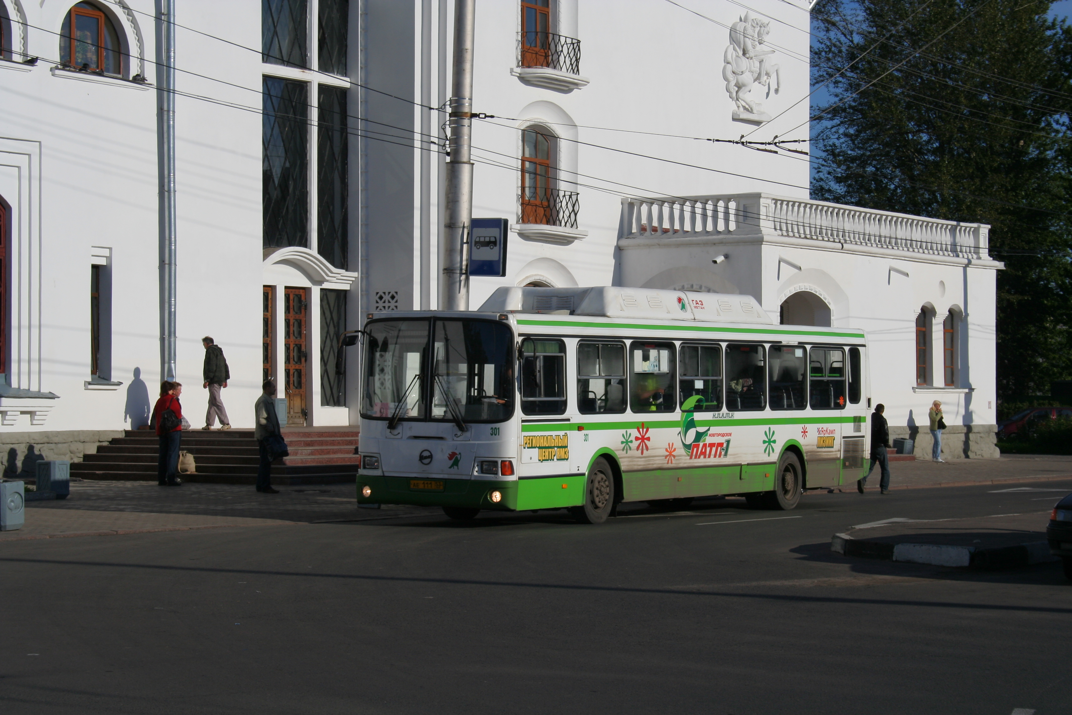 Views of Velikiy Novgorod. A bus at the main train station.